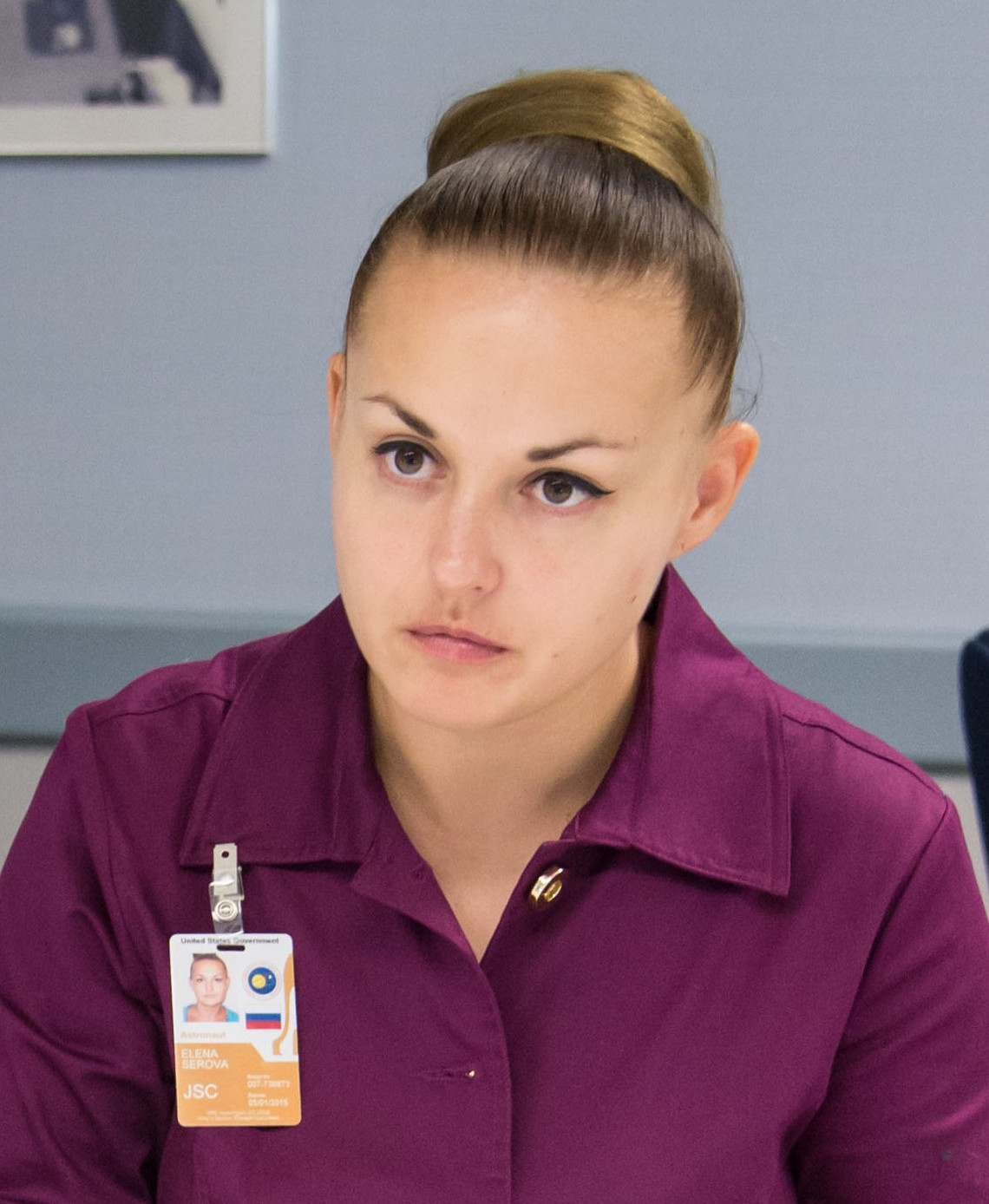 JSC2013-E-091579 (30 Oct. 2013) --- Russian cosmonaut Elena Serova, Expedition 41/42 flight engineer, participates in a food tasting session in the Habitability and Environmental Factors Office at NASA's Johnson Space Center. Photo credit: NASA